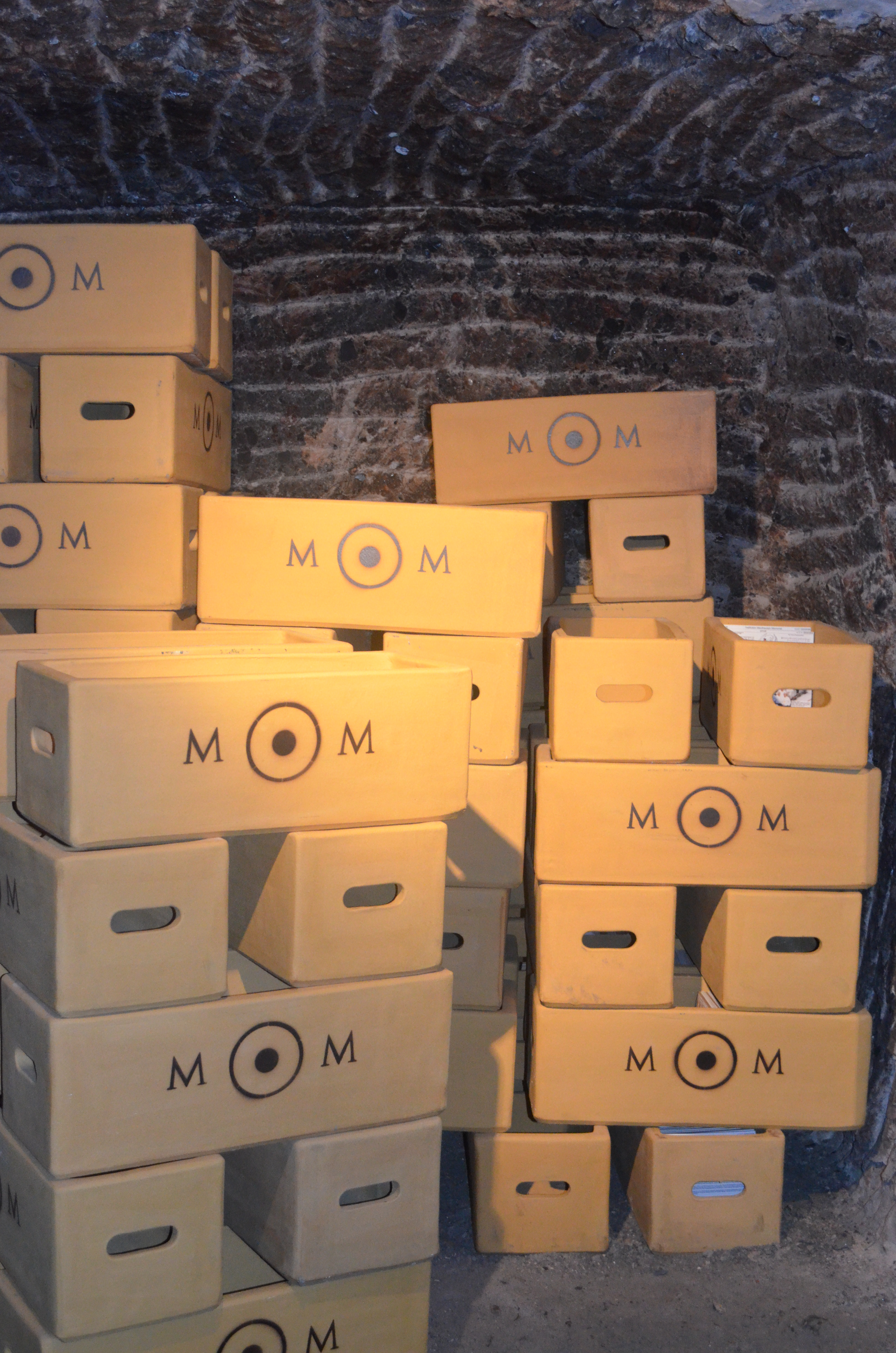 Containers in a cave